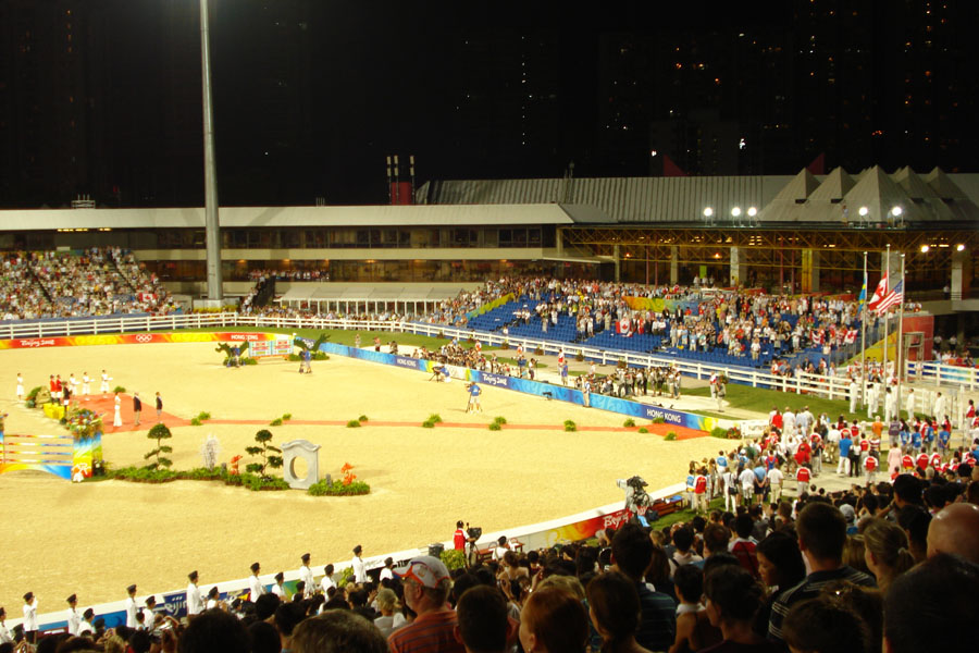 Beijing 2008 Olympic Game - Equestrian Event - Victory Ceremony of Individual Dressage